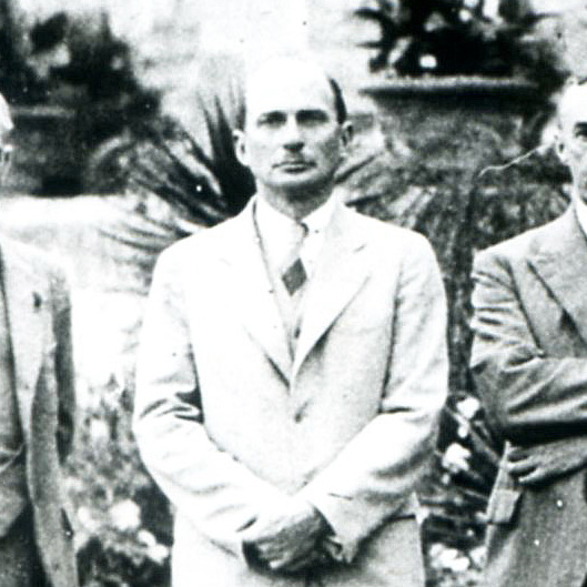 Truro 1930 Arthurian Society - International Arthurian Congress, Truro, August 1930 Professor C. B. Lewis attended the Congress, and made the list of participants inc. Dominica Legge. Second from left, R. S. Loomis, fourth from left Katharine Jenner, fifth from left Henry Jenner